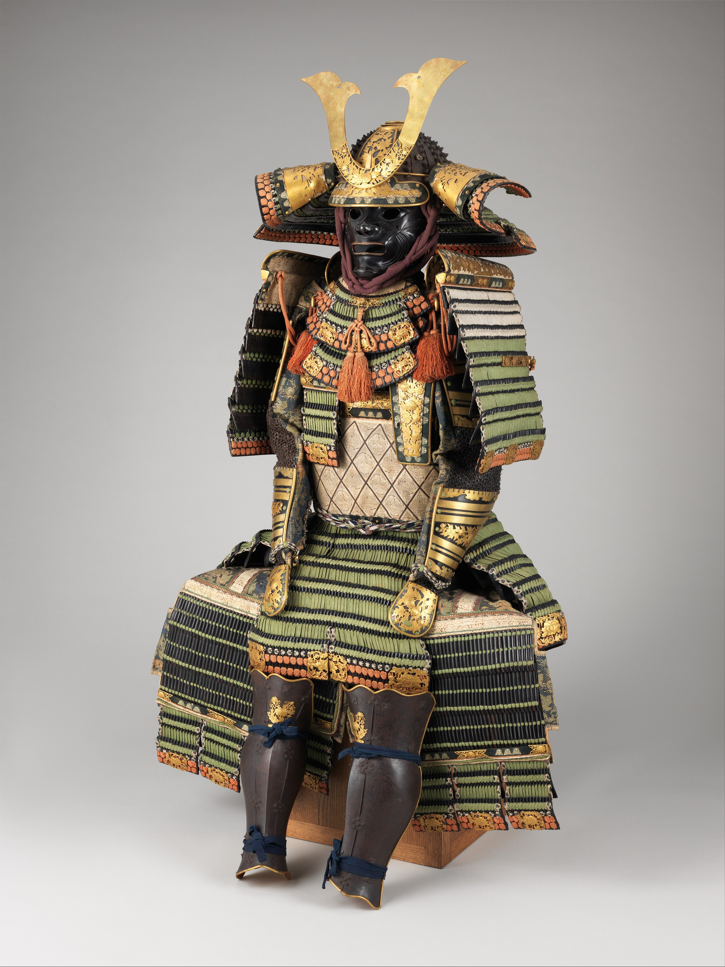 Japanese; Armor (Yoroi); Armor for Man